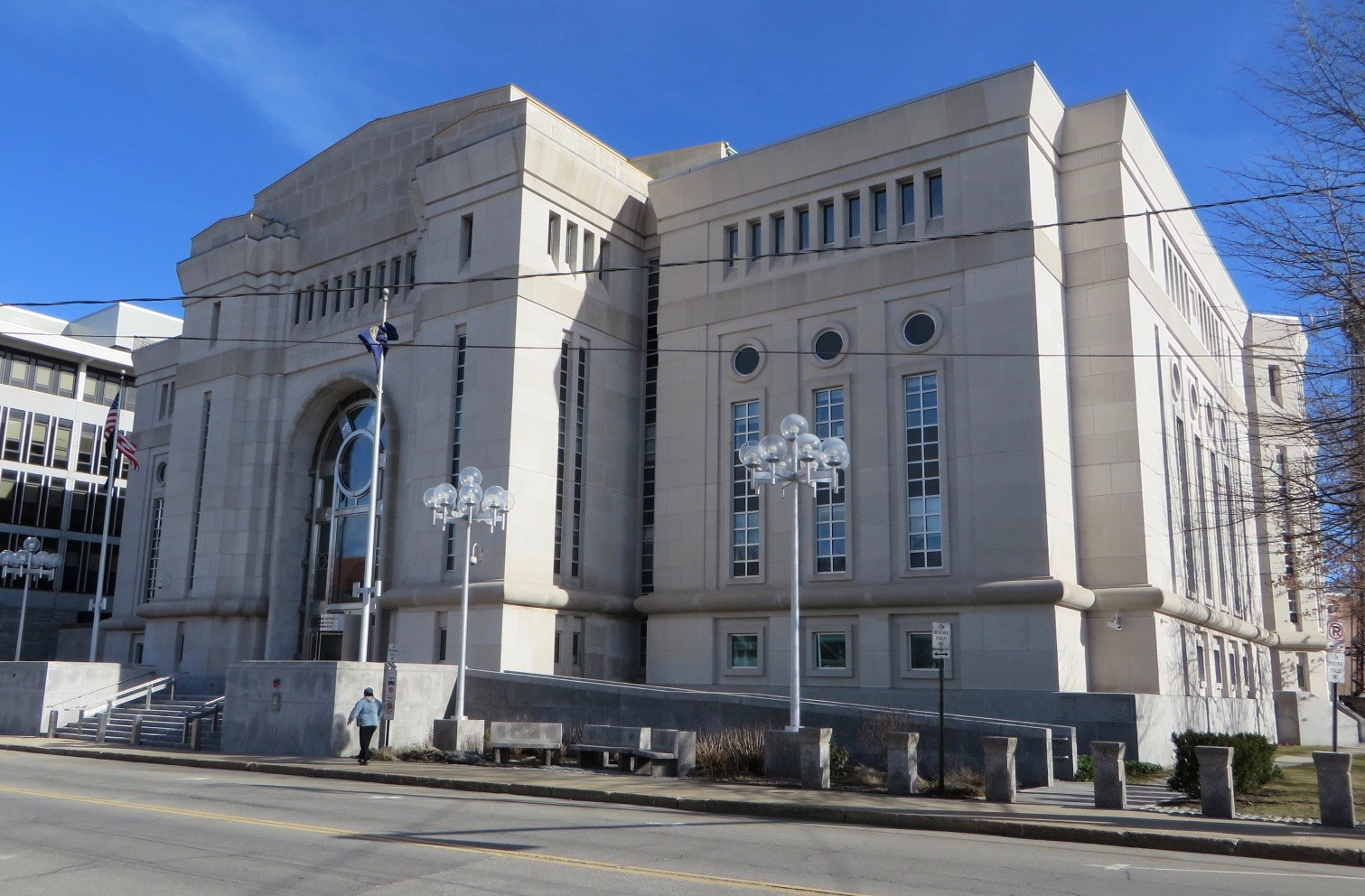 The Warren B. Rudman U.S. Courthouse in Concord, New Hampshire, serving the United States District Court for the District of New Hampshire.